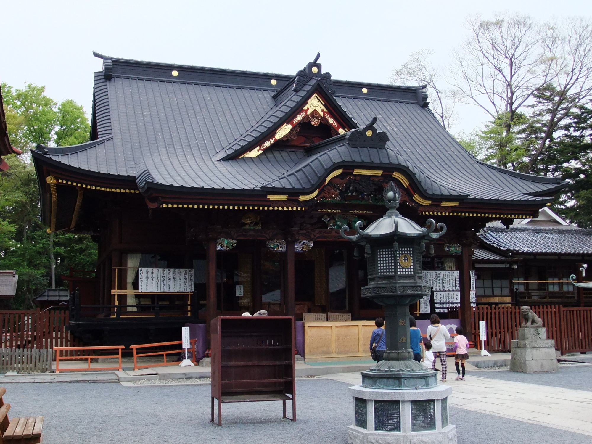 Shōden-dō hall of Kangi-in temple (Menuma Shōden) in Kumagaya, Saitama